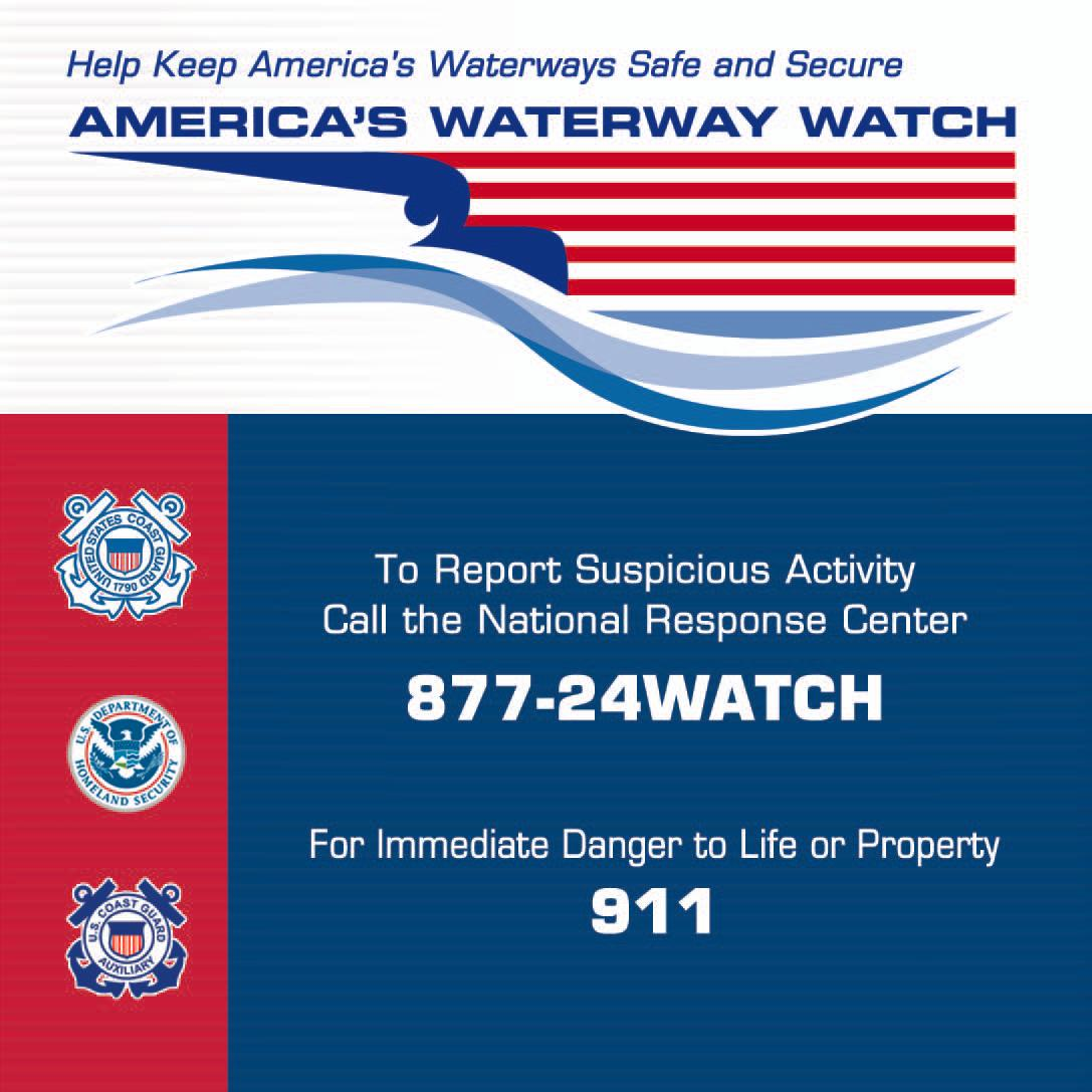 informational decal for the AWW program